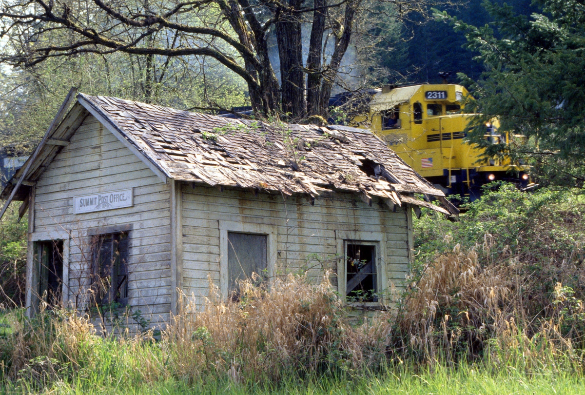 Willamette & Pacific RR "Toledo Hauler" passing the abandoned post office at Summit, Oregon. April 1998. Scan from 35mm slide.